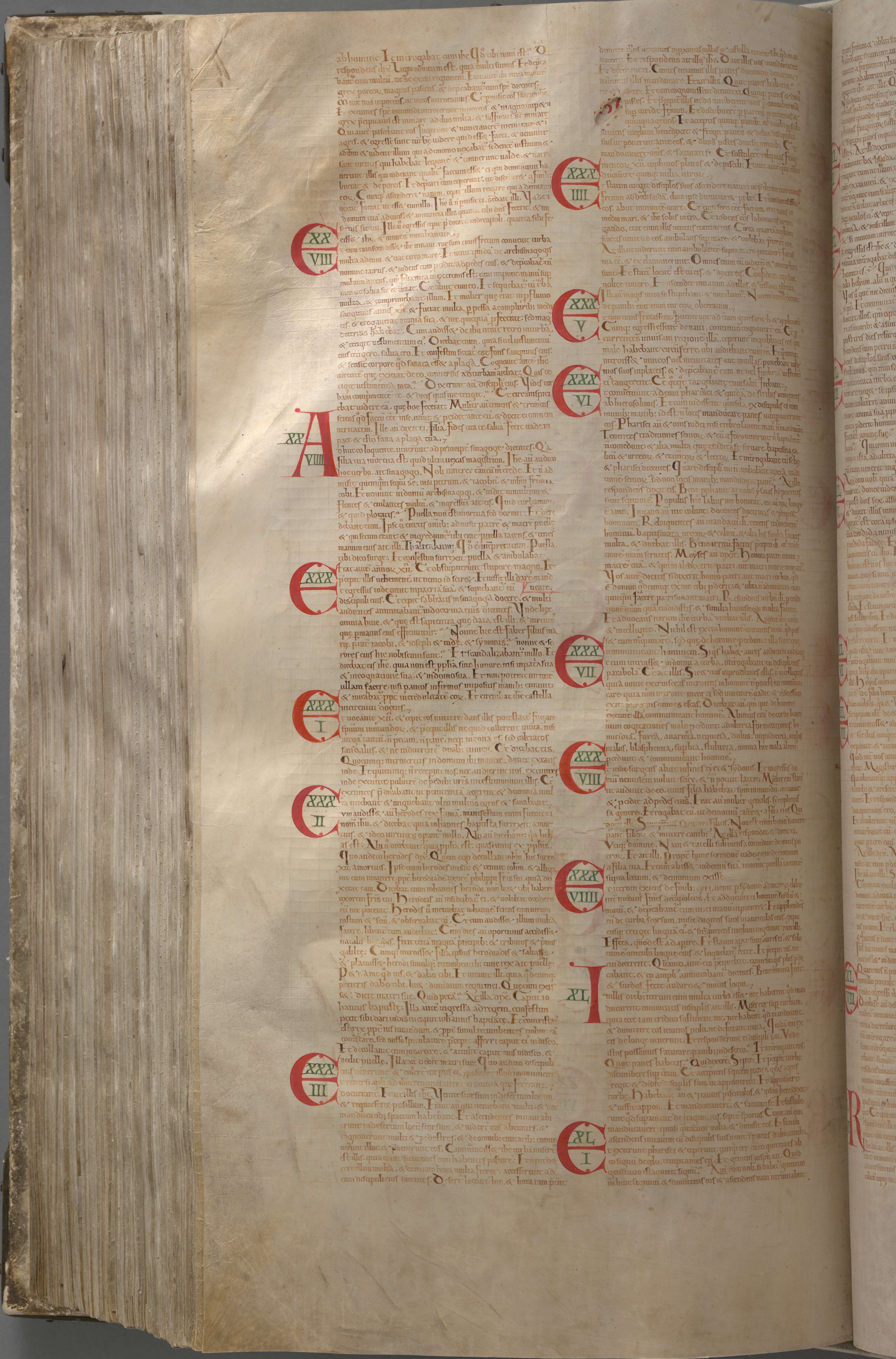 Giant Book) is the largest extant medieval manuscript in the world. It is also known as the Devil's Bible because of a large illustration of the devil on the inside and the legend surrounding its creation. It is thought to have been created in the early 13th century in the Benedictine monastery of Podlažice in Bohemia (modern Czech Republic). It contains the Vulgate Bible as well as many historical documents all written in Latin. During the Thirty Years' War in 1648, the entire collection was taken by the Swedish army as plunder, and now it is preserved at the National Library of Sweden in Stockholm, though it is not normally on display.